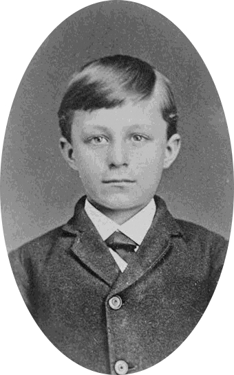 Wilbur Wright, child photo portrait